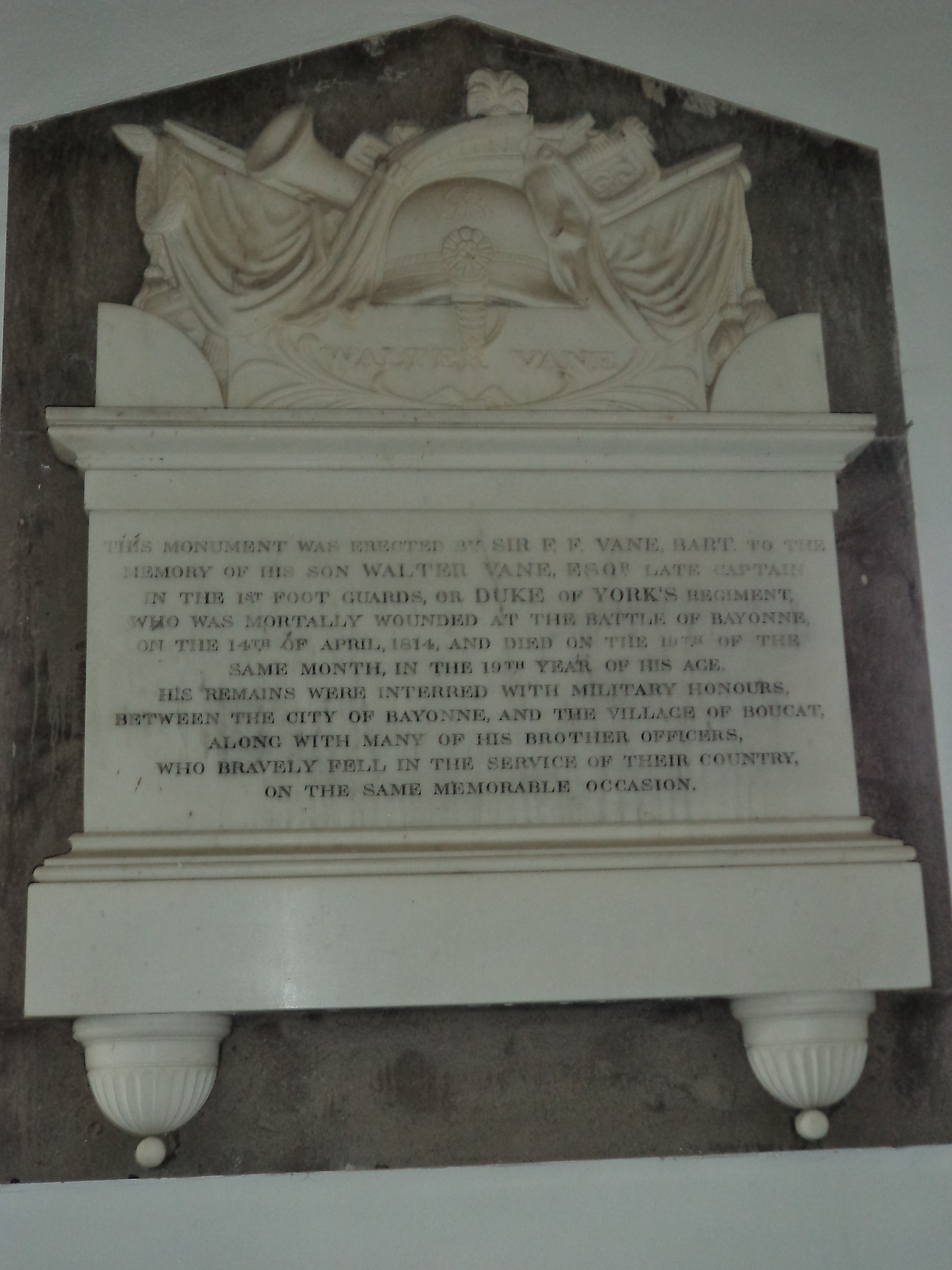 Memorial to Captain Walter Vane who died in the Sortie from Bayonne during the Napoleonic Wars, April 1914. The memorial tablet was erected by his father Sir Frederick Fletcher-Vane, 2nd Baronet at St Bega's Church, Bassenthwaite, then in the County of Cumberland